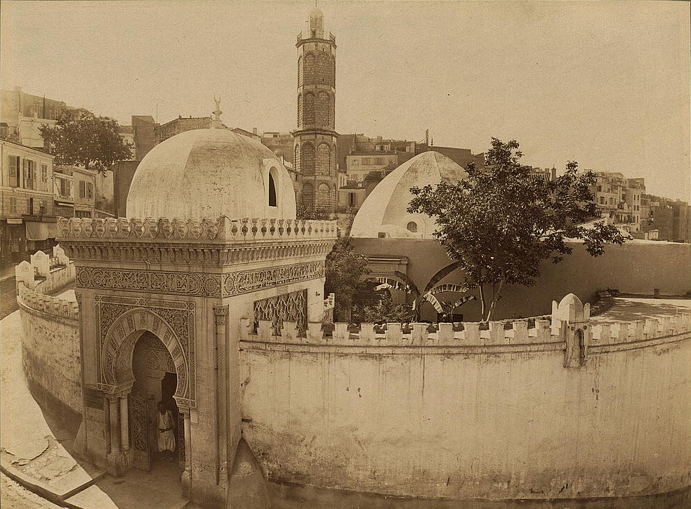 Entrance to the Mosque of the Pasha, Oran, Algeria.